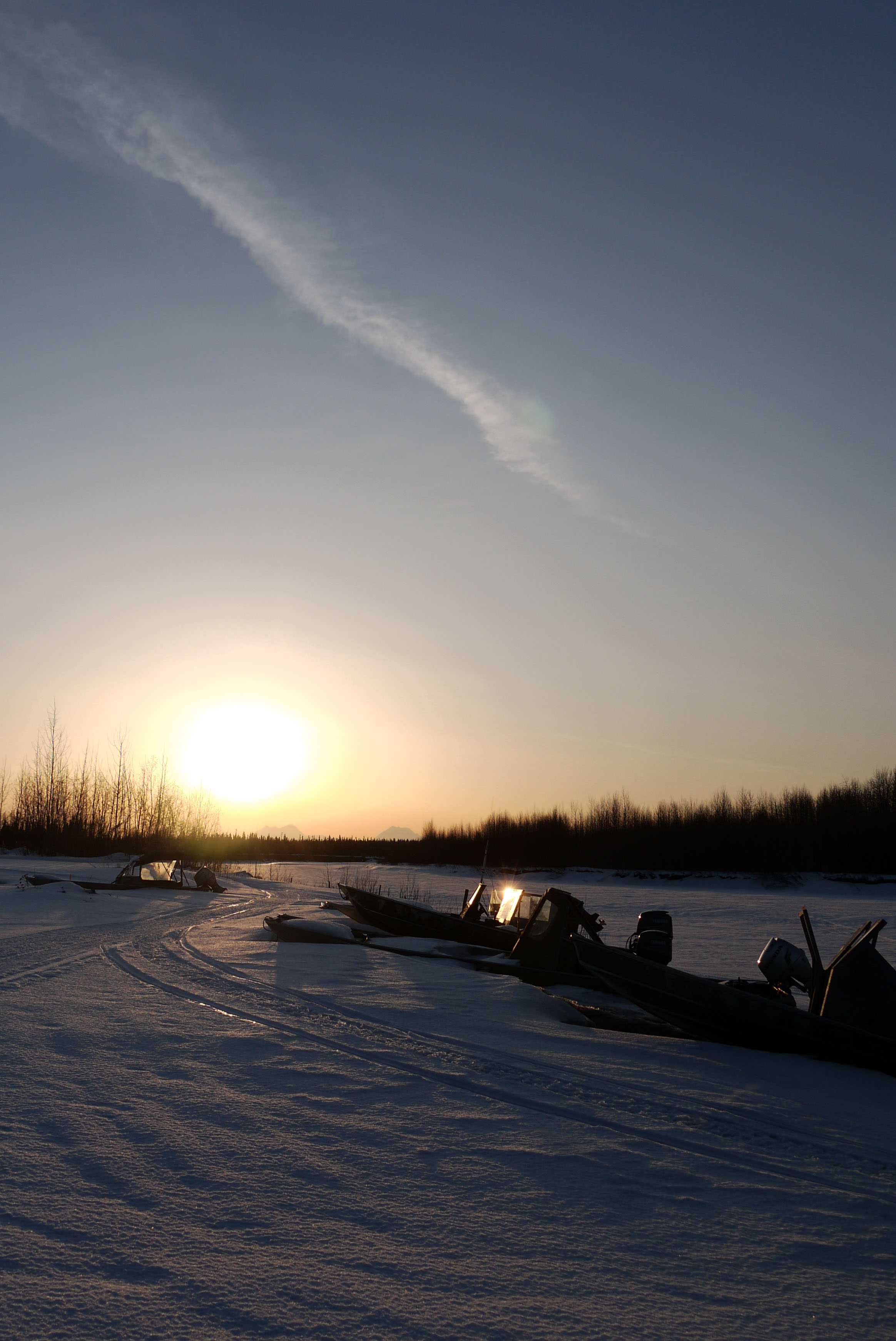 Morning view from the banks of the Upper Kuskokwim River, Alaska, USA